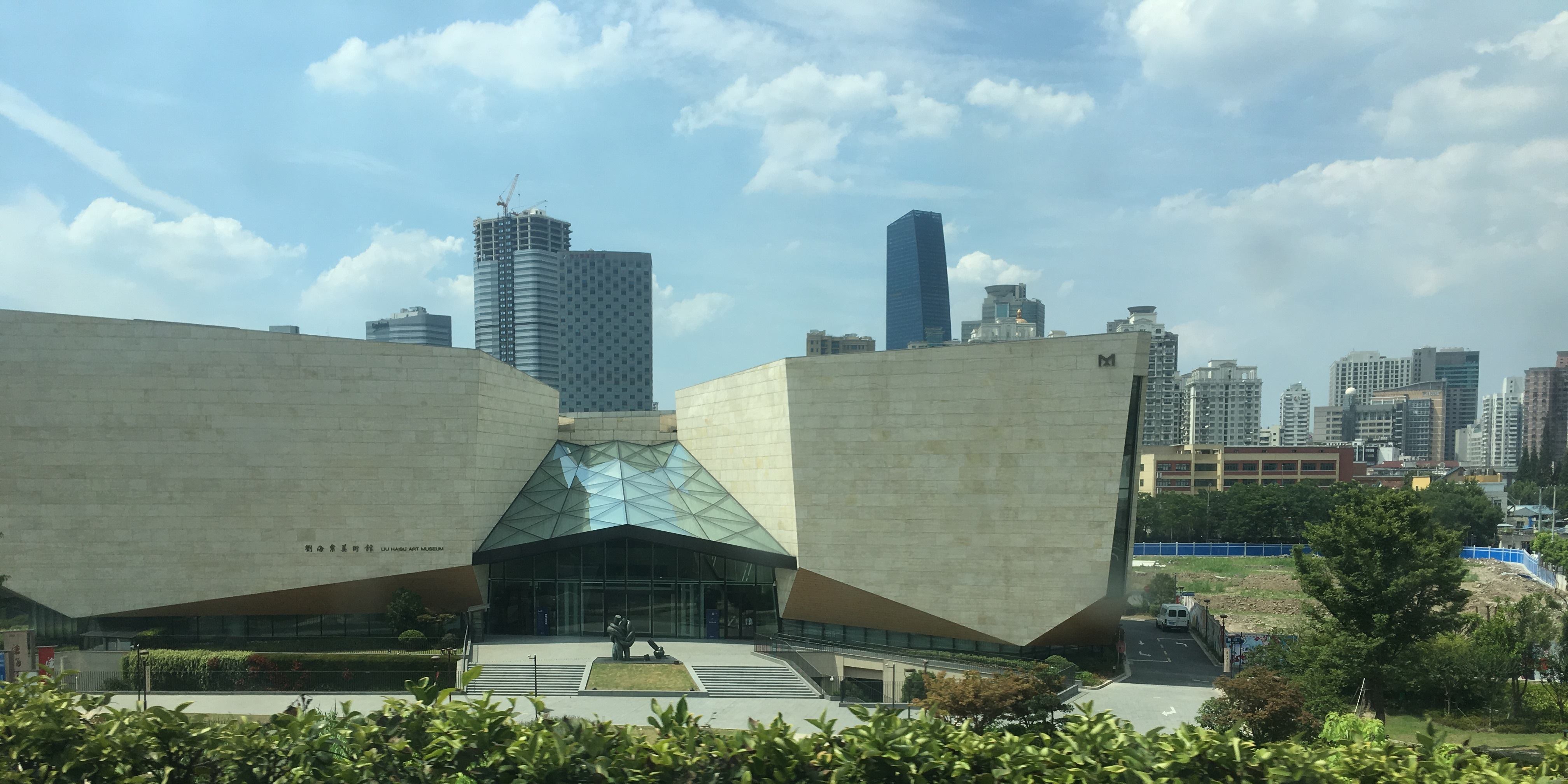 Shanghai International Dance Center, near Hongqiao Lu (road), in Changning District of Shanghai.